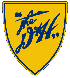 Logo of the Delaware and Hudson Railway.